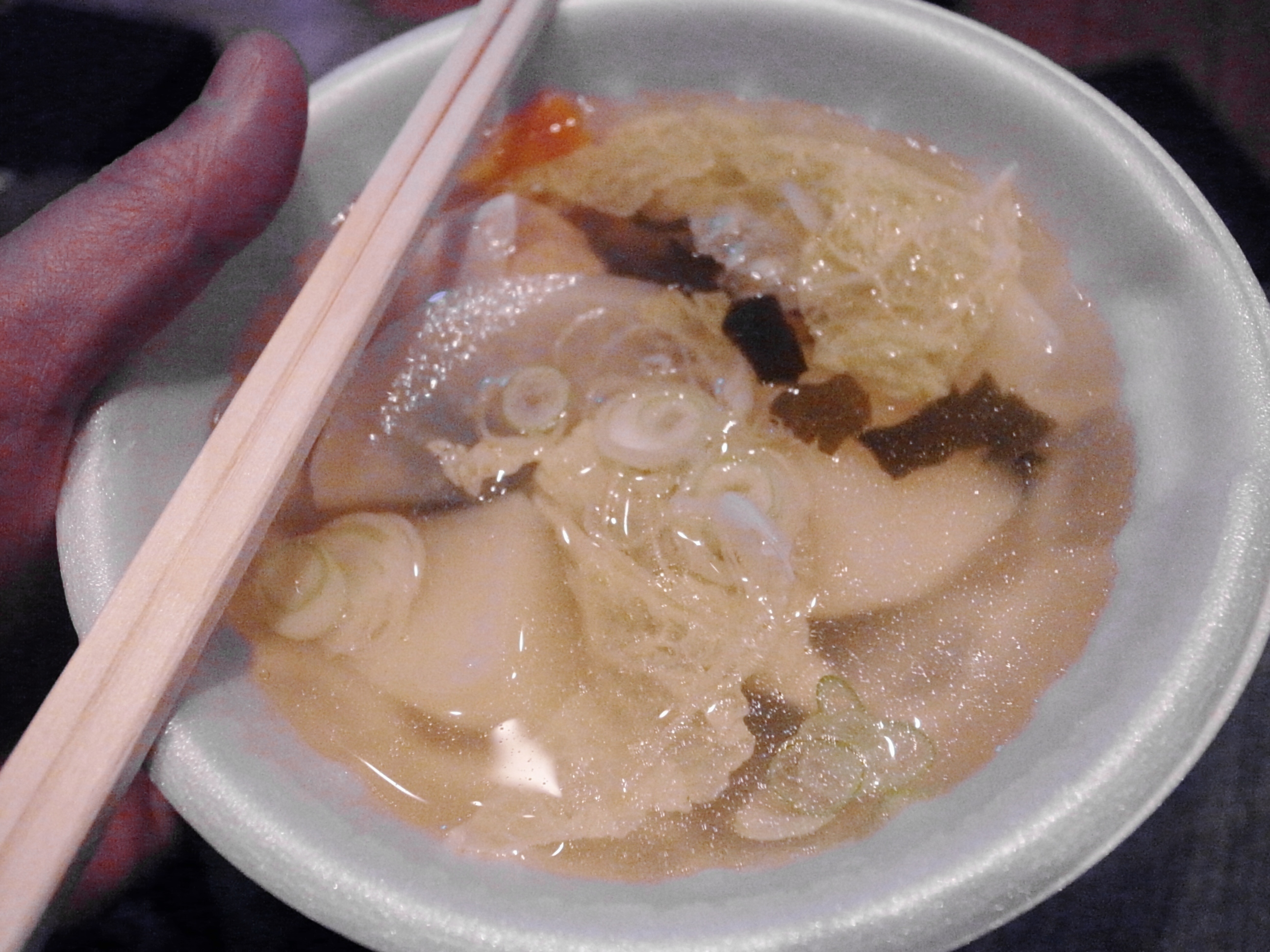 Ohaw, traditional Ainu soup made from vegetables, meat and stock.